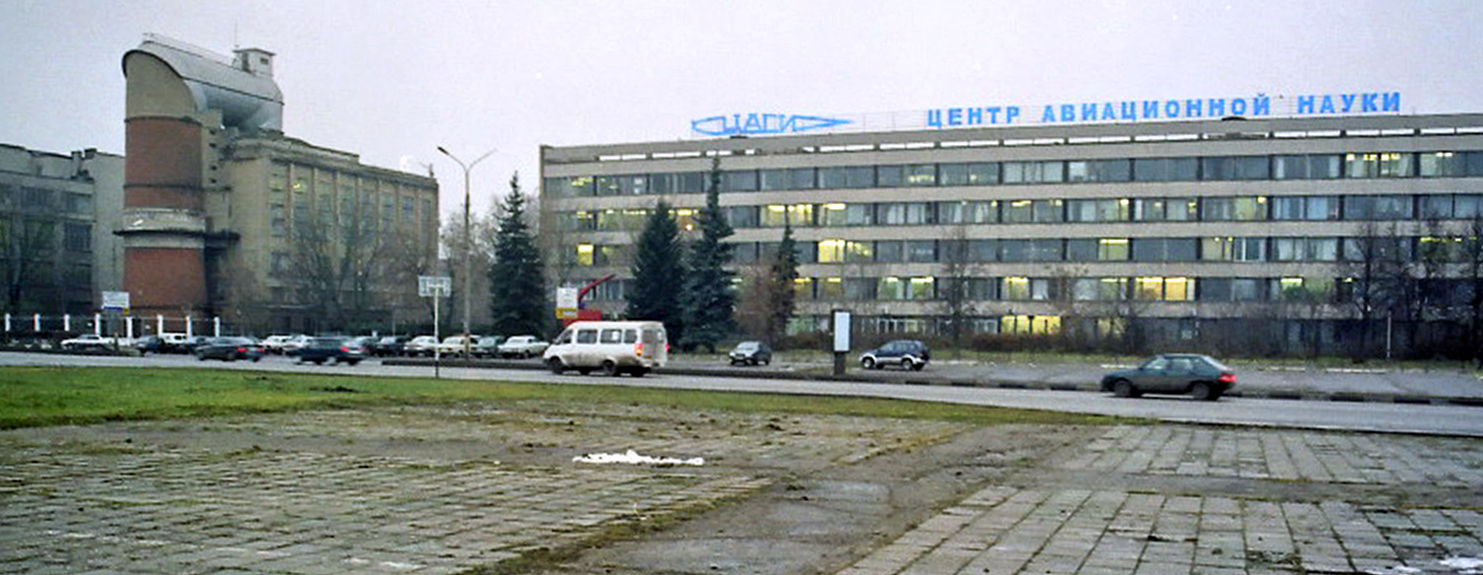 TsAGI with vertical aerodynamic tube T-105 (built in 1941) on the left